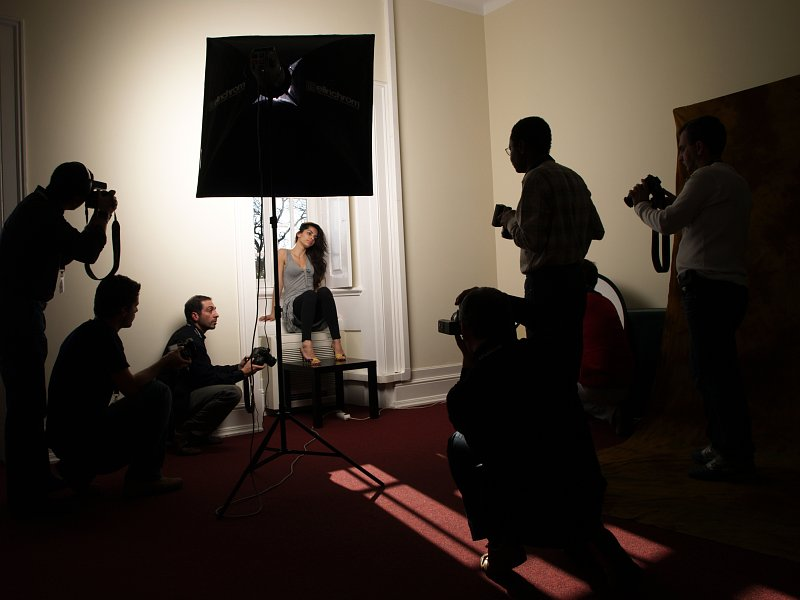 Group Photo Session